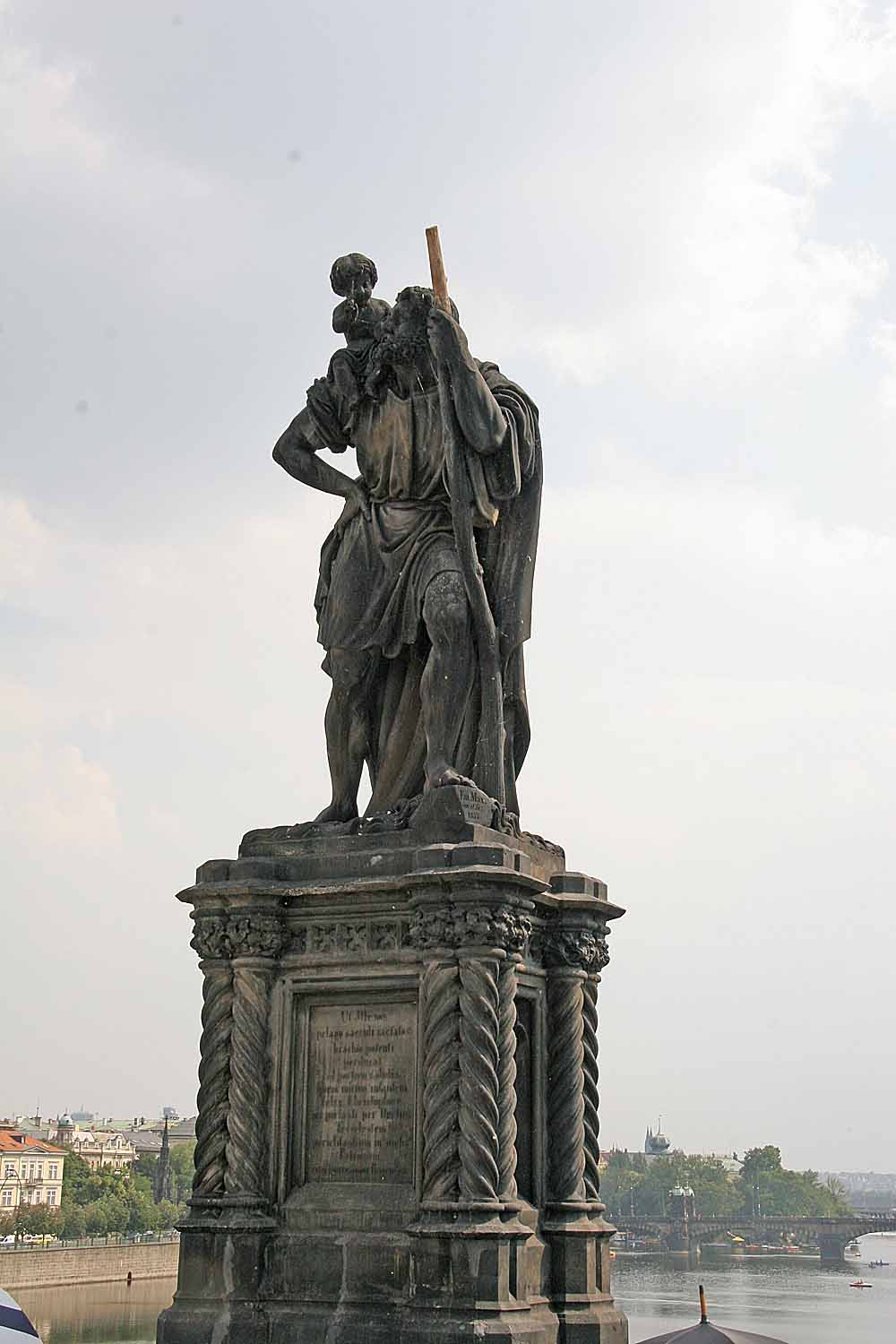 Statue of saint “Krystof” od Charles Bridge, Prague.